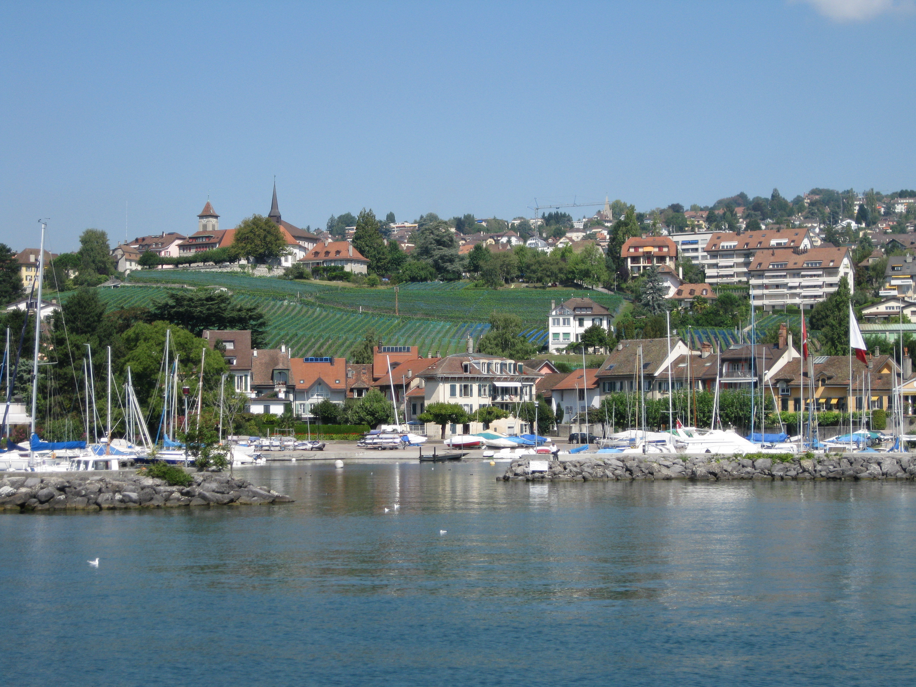 Around the lake of Geneva, Switzerland / France. Location see geotag.